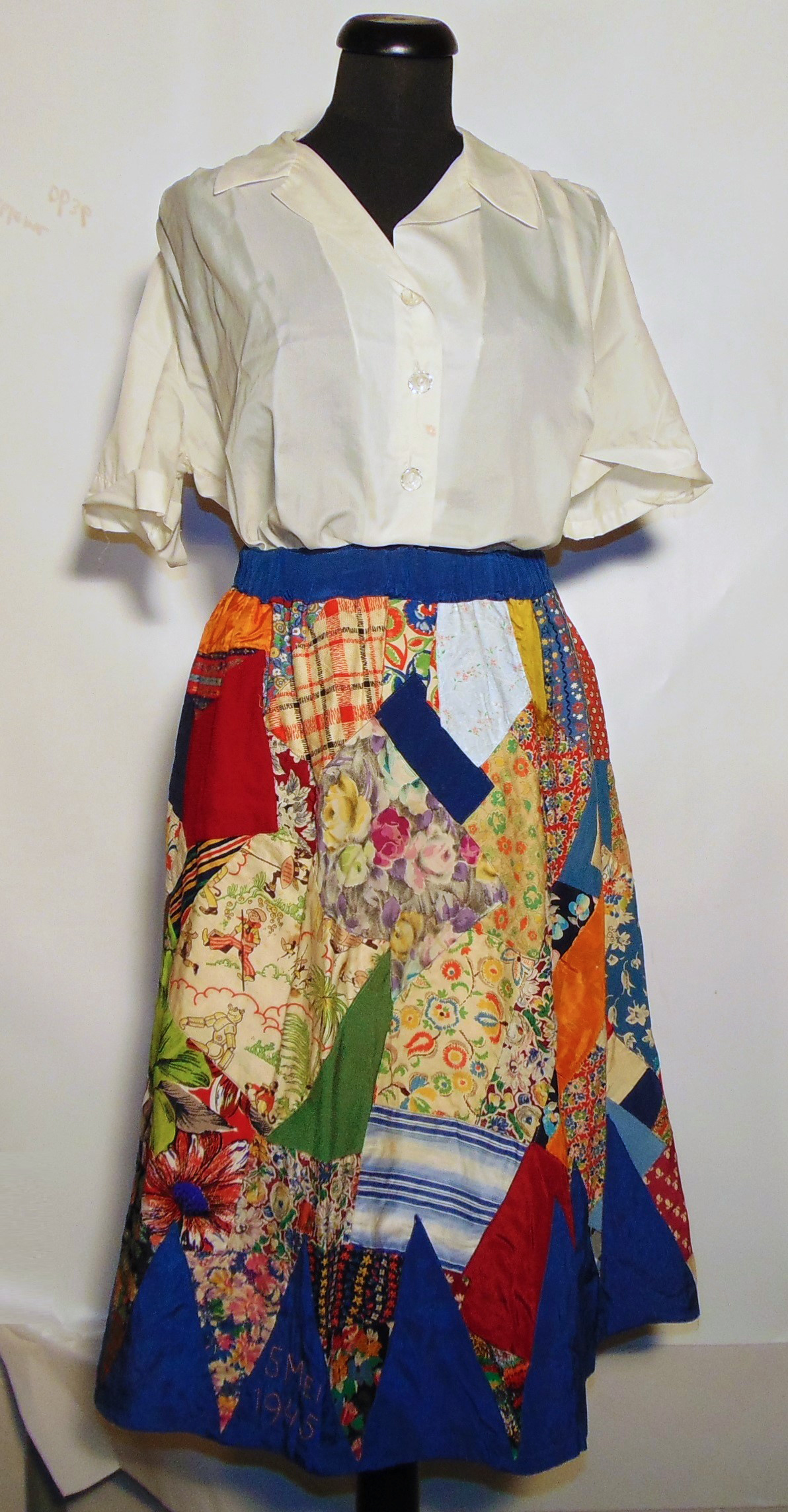 National liberation skirt; National Institute registration stamp 1946, blue edge with date 5 May 1945. These skirts were widely produced in the Netherlands after the second world war to commemorate liberation. The dates of successive victory day celebrations during which the skirt was worn were embroidered on the border. Photographed in the collection of the National Liberation Museum 1944-1945, the Netherlands, archive number 3.2.8.